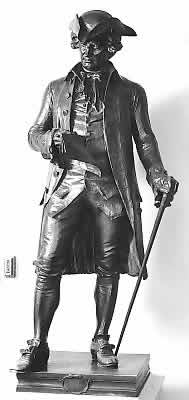 John Hanson by Richard E. Brooks (sculptor), 1903. The bronze statue stands in the United States Capitol